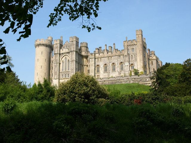 Arundel Castle